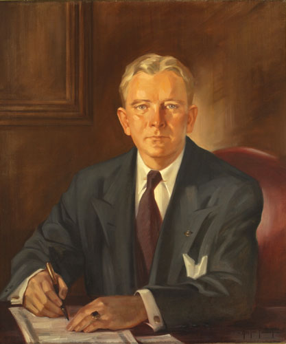 Fuller Warren (1905–1973), Thirtieth governor of Florida, January 4, 1949 to January 6, 1953. Oil on canvas, Alleynne Foster, ca. 1950.